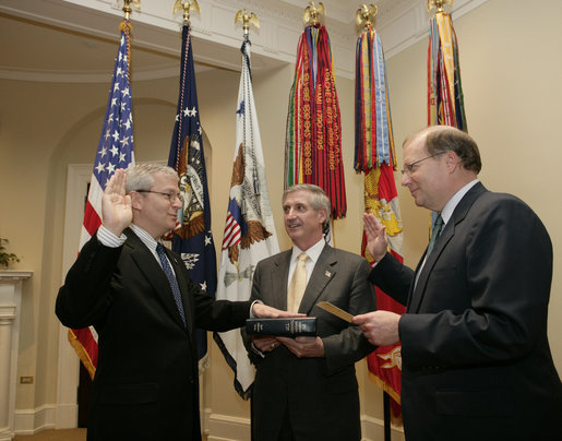 "New Chief of Staff Josh Bolten is joined by outgoing Chief of Staff Andrew Card as Bolten is sworn-in by Deputy Chief of Staff Joe Hagin, right, Friday, April 14, 2006 in the Roosevelt Room of the White House. White House photo by Paul Morse"